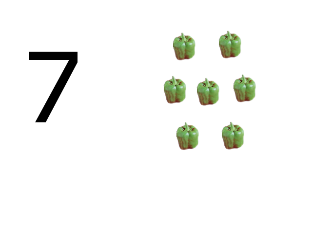 Image licensed under GFDL and made by Javier Carro with GIMP and modified with paint.